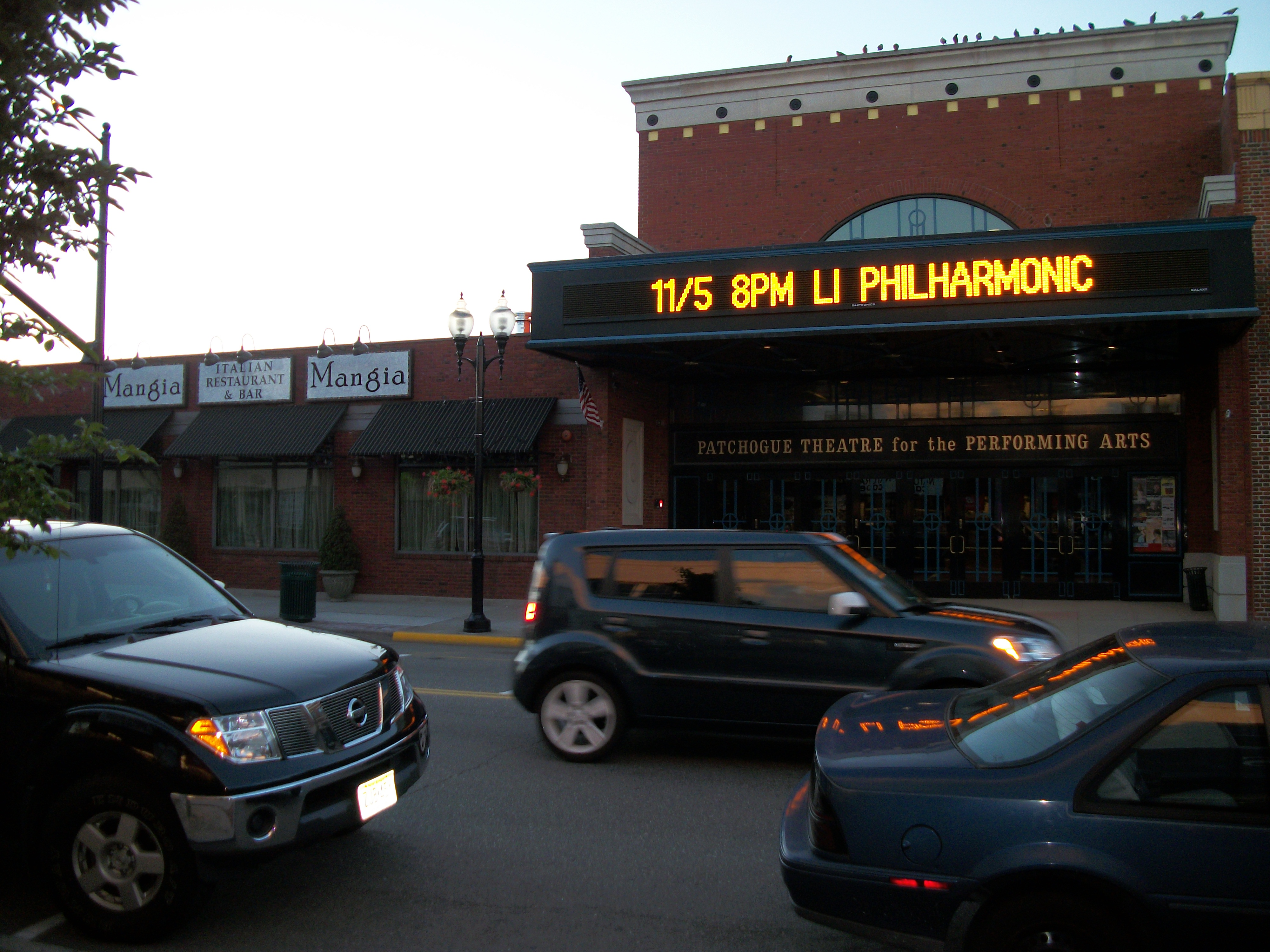 The Patchogue Theatre, as seen from across East Main Street in the Village of Patchogue, New York. One of the upcoming shows on the marquee is for a concert by Long Island Philharmonic Orchestra, which is to be shown on November 5, 2010, nearly five months after the day this pic was taken.